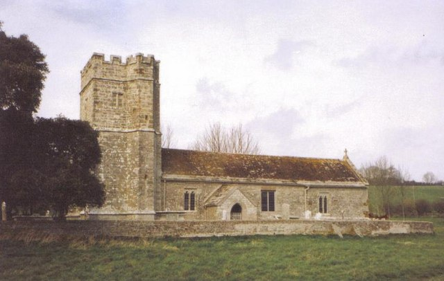 Whitcombe: parish church of lost dedication, near to Whitcombe, Dorset, Great Britain. A little church that is really remote, although very close to the A352.